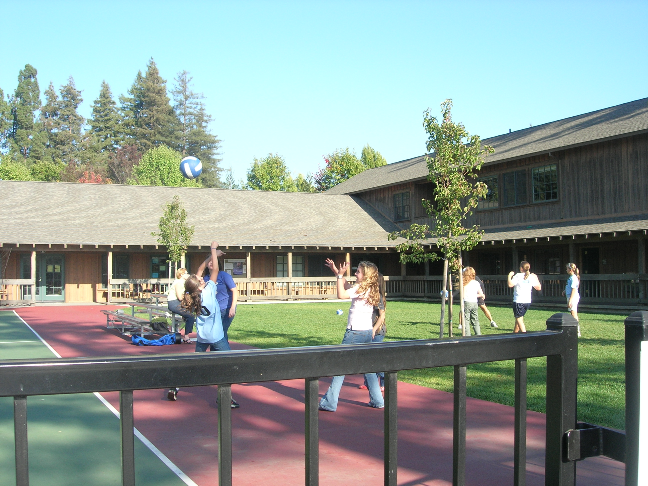 The Blue Oak School middle school campus.